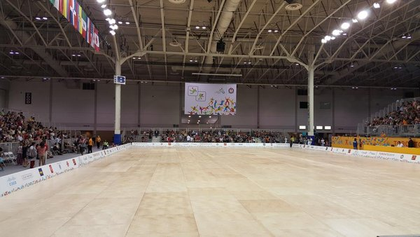 The roller figure skating venue for the 2015 Pan American Games